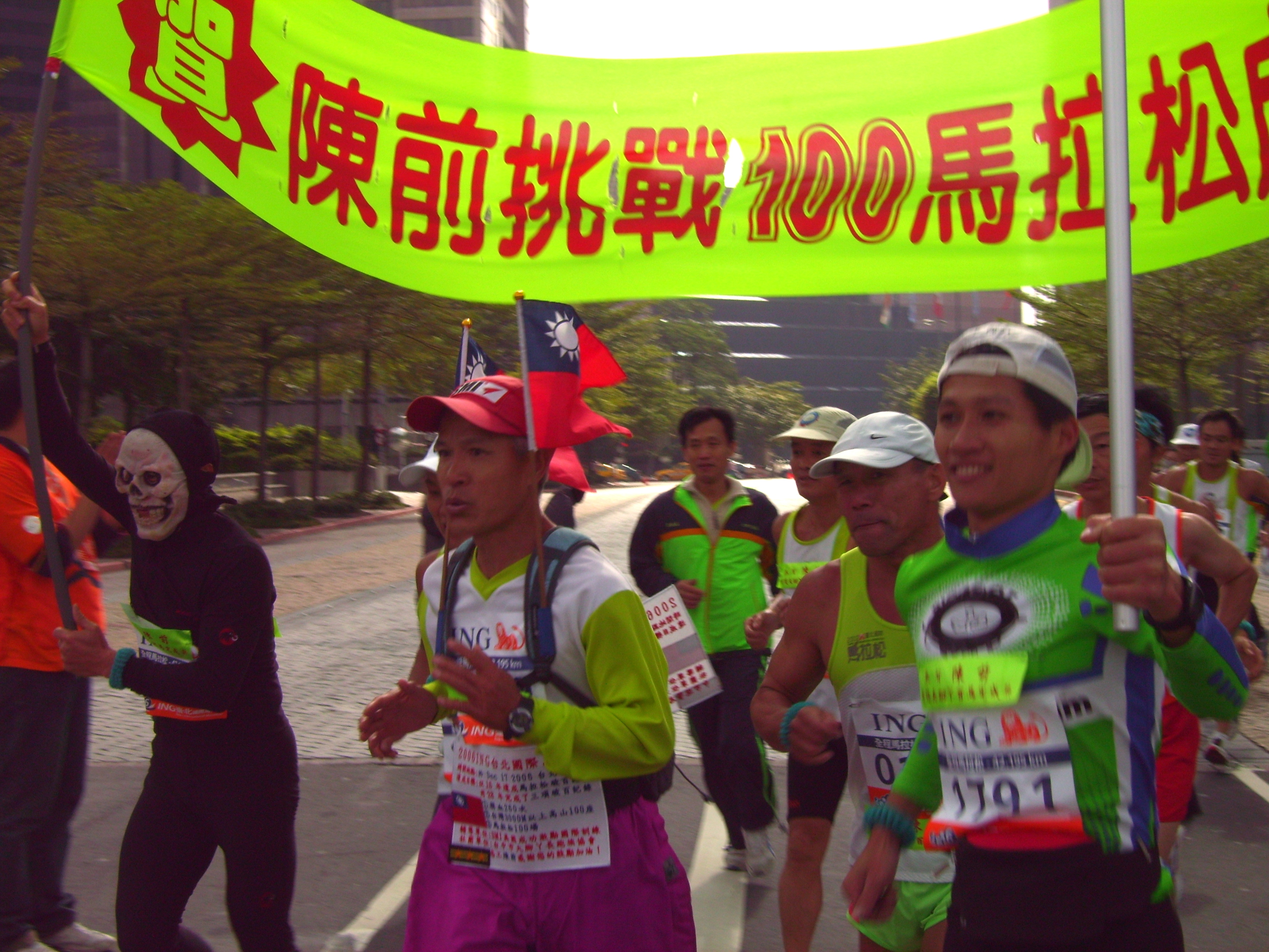 Taichung Bigfoot Running Club Chien Chen (with a red hat and a ROC flag) finished his 100th marathon at 2006 ING the 10th Taipei International Marathon, he's also the third Taiwanese marathon runner who finished their own 100th marathon.